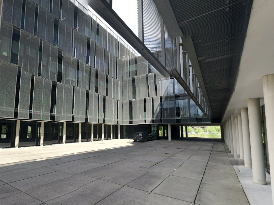 Luciad office, Wetenschapspark Arenberg, Leuven